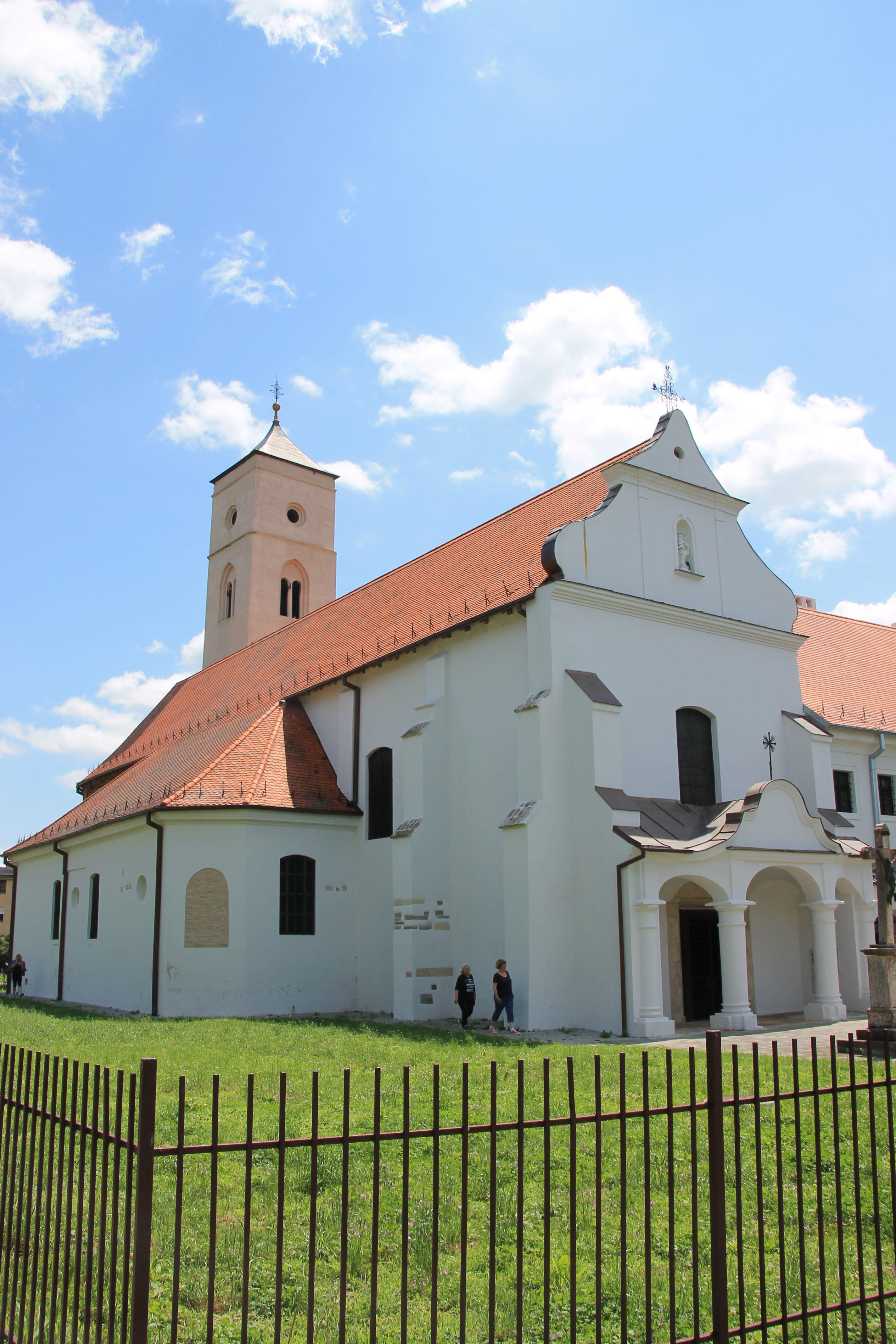 Franciscan churches in Bač